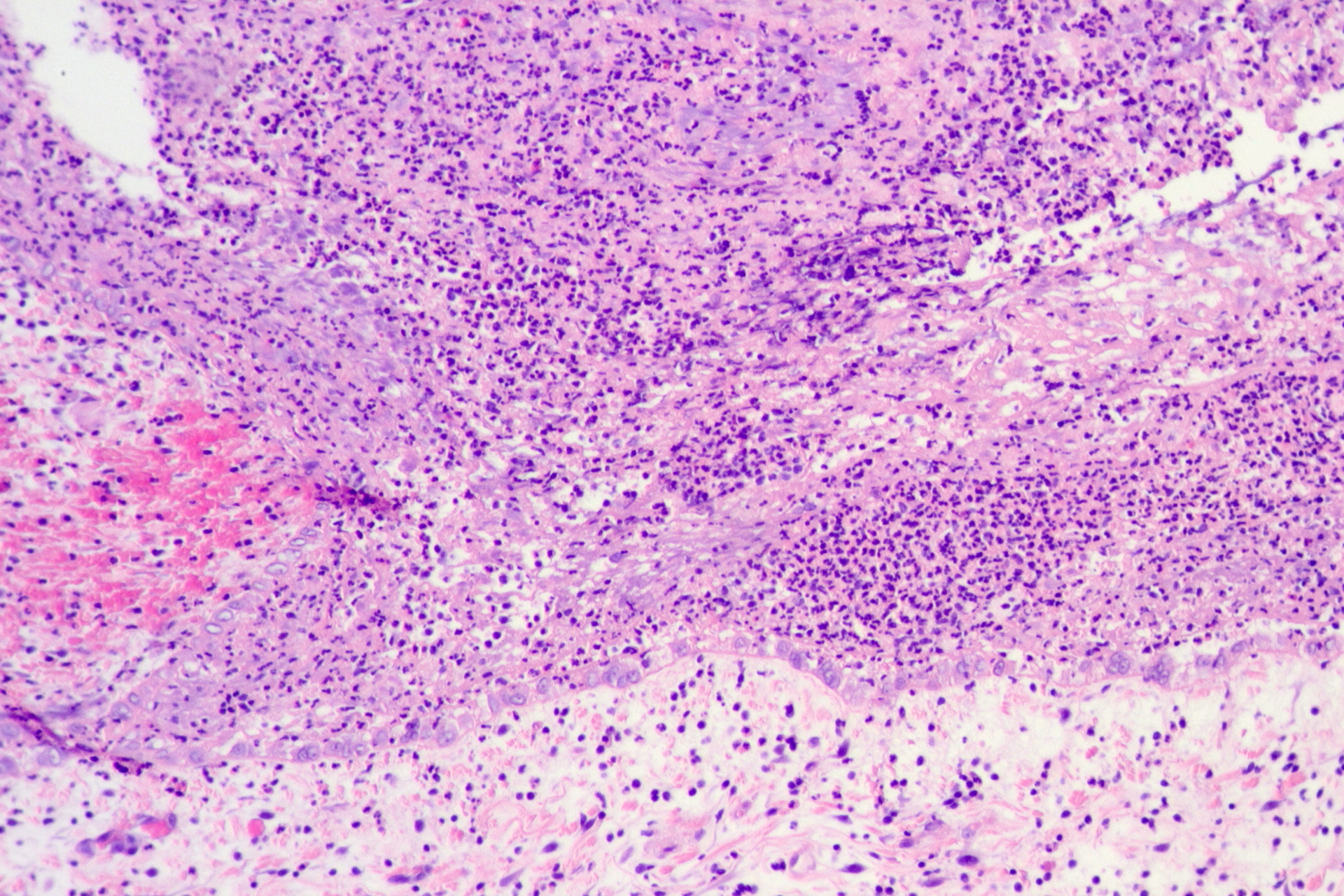 Meckel's diverticulum with ectopic corpus-type gastric mucosa, resected after perforation.